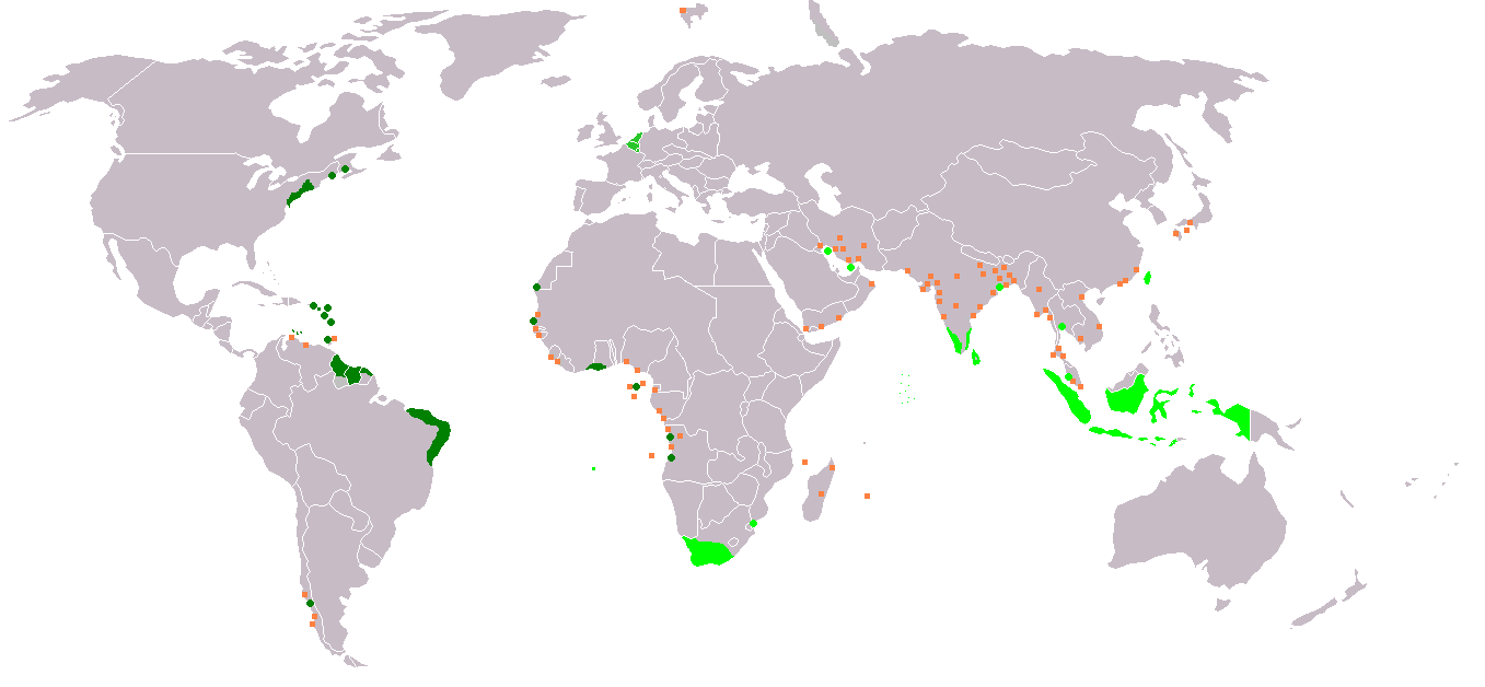 Dutch Empire. Light green the Dutch East India Company, in dark green is the Dutch West India Company. Orange dots were trading posts.